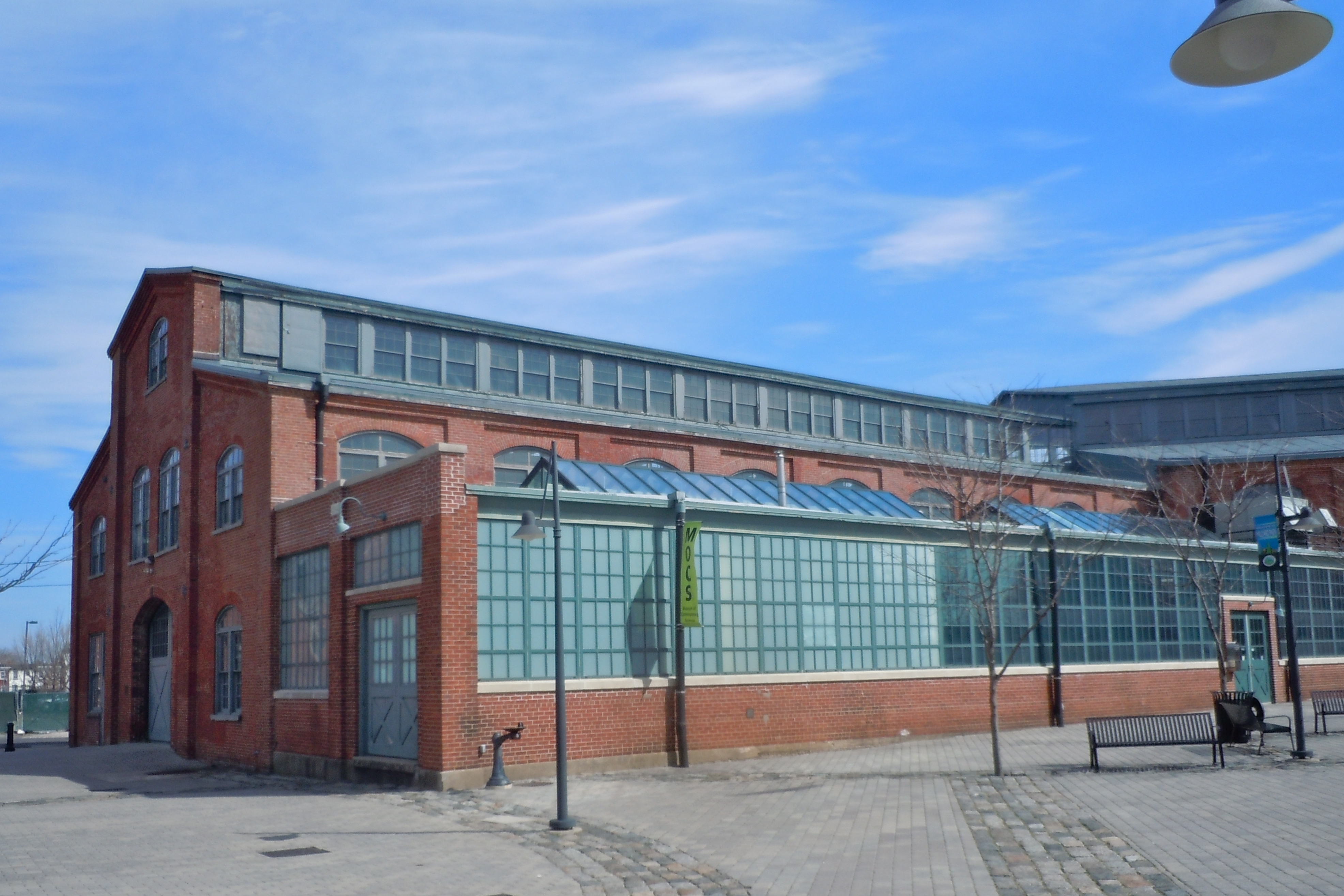 Side view of Roebling Machine Shop on the NRHP since September 4, 1997. At 675 S. Clinton Ave., Trenton, New Jersey. Main building shown here built 1890, shed with all of the glass may have been added later. Built by John Roebling's sons